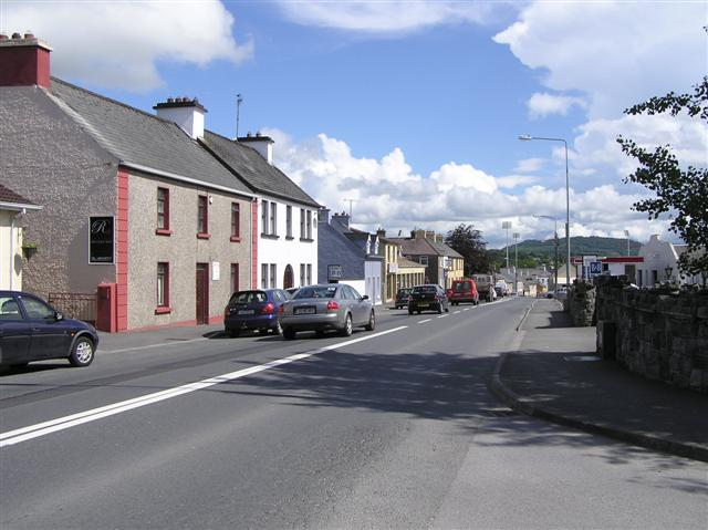 Heading north-east into the town Ballybofey. County Donegal, Ireland